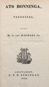 Book: Ats Bonninga. Treurspel door Mr. A. van Halmael Jr. Leeuwarden, G.T.N. Suringar, 1830